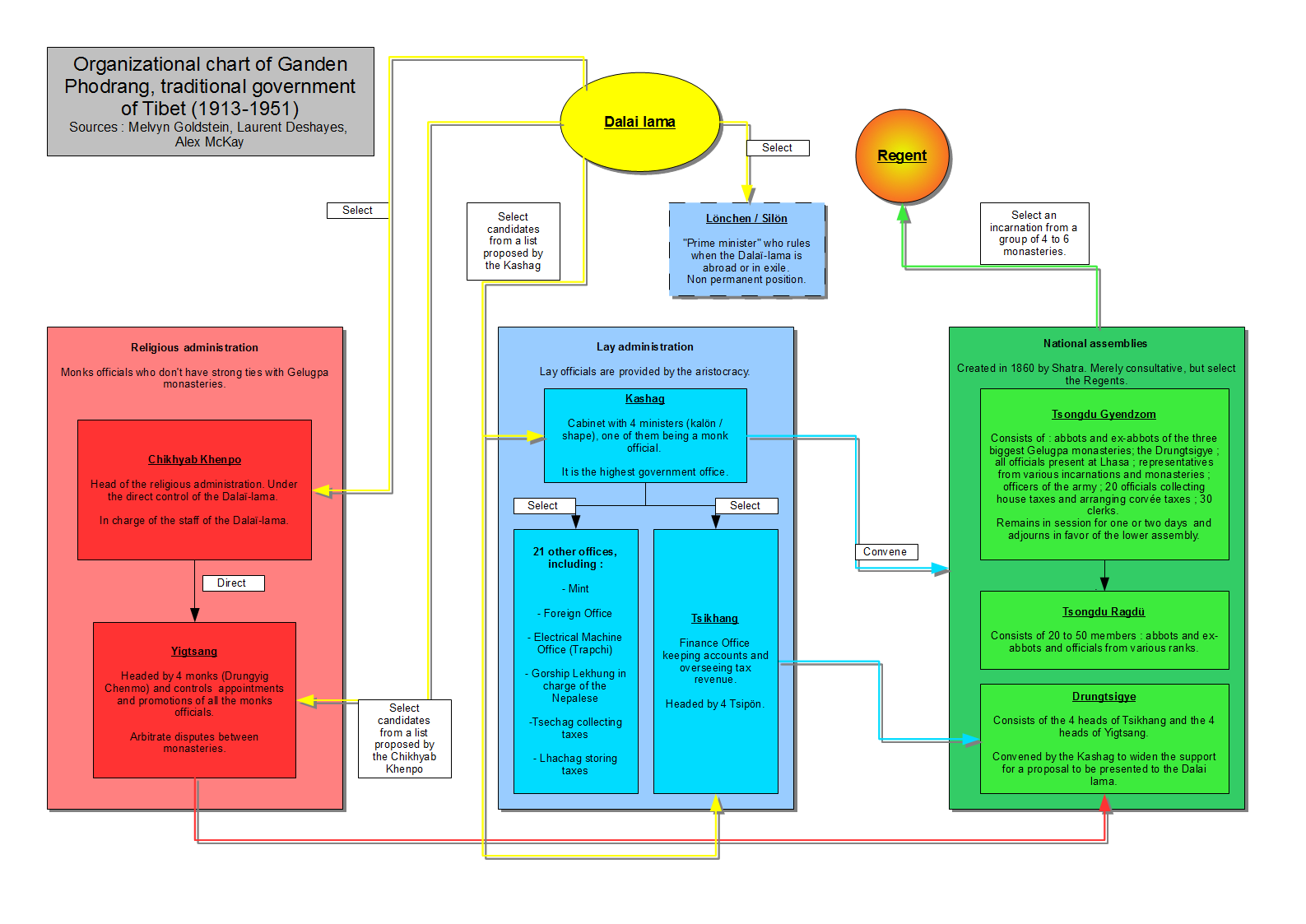 Organizational chart of Ganden Phodrang, traditional government of Tibet (1913-1951)